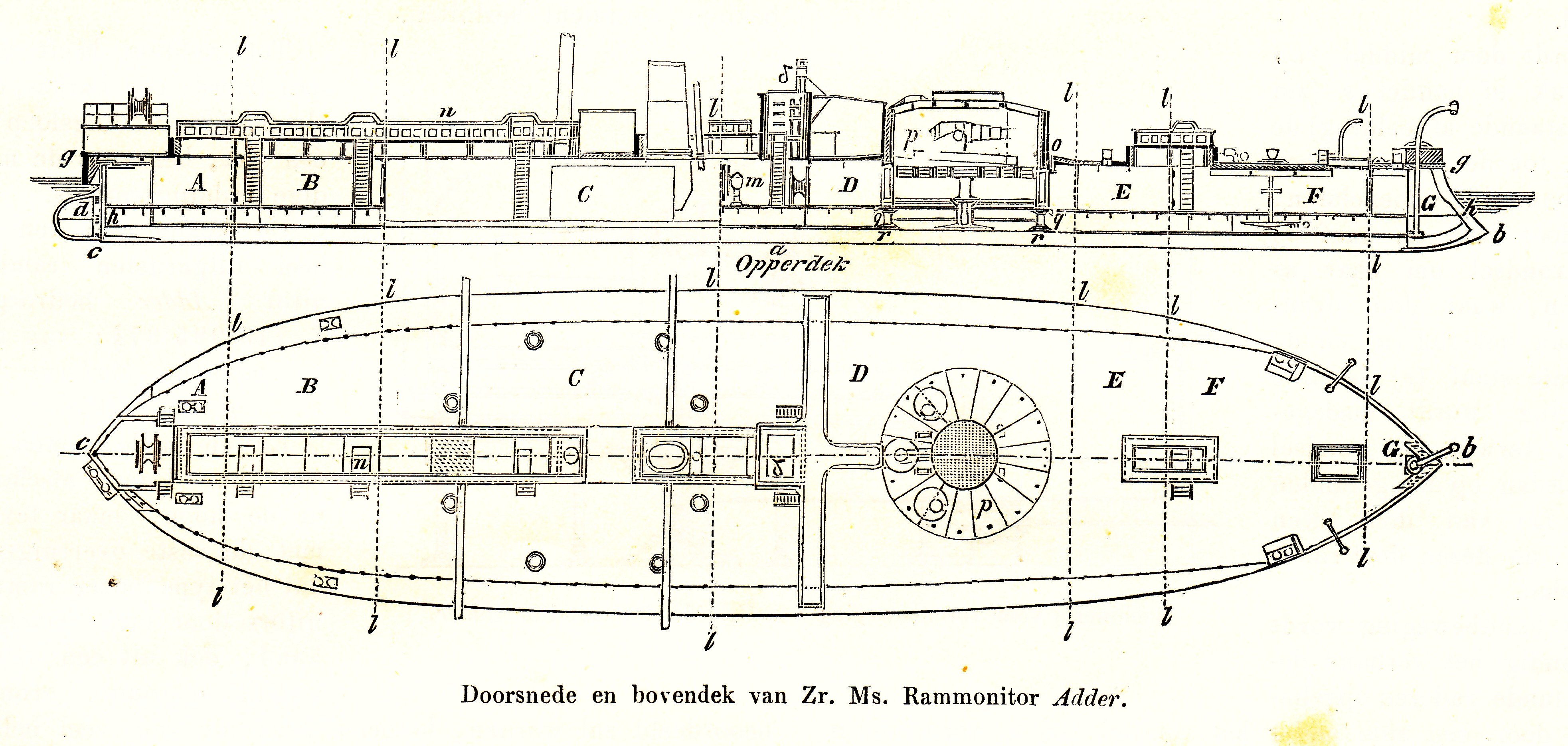 Rammonitor Adder